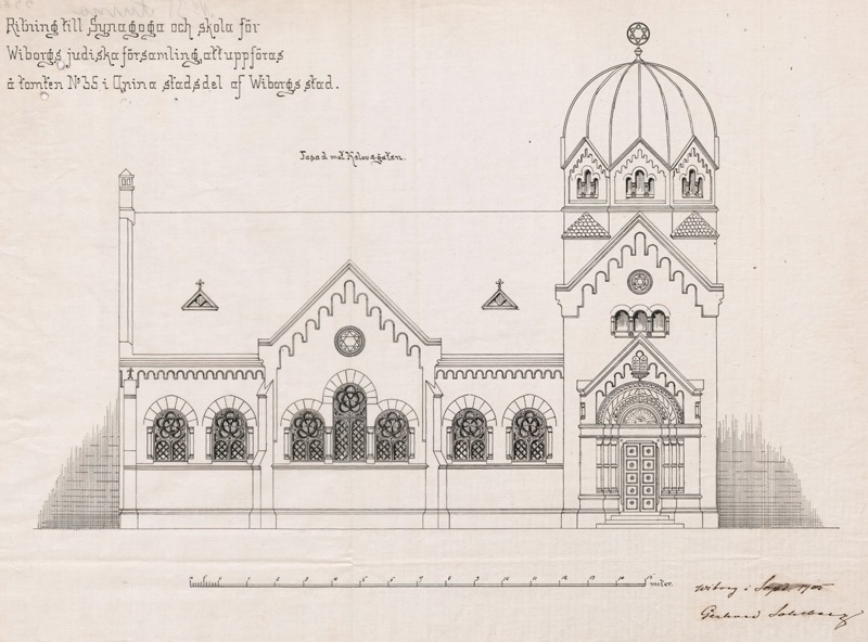 The original drawing of Vyborg Synagogue by architect Bruno Gerhard Sohlberg (1863-?).